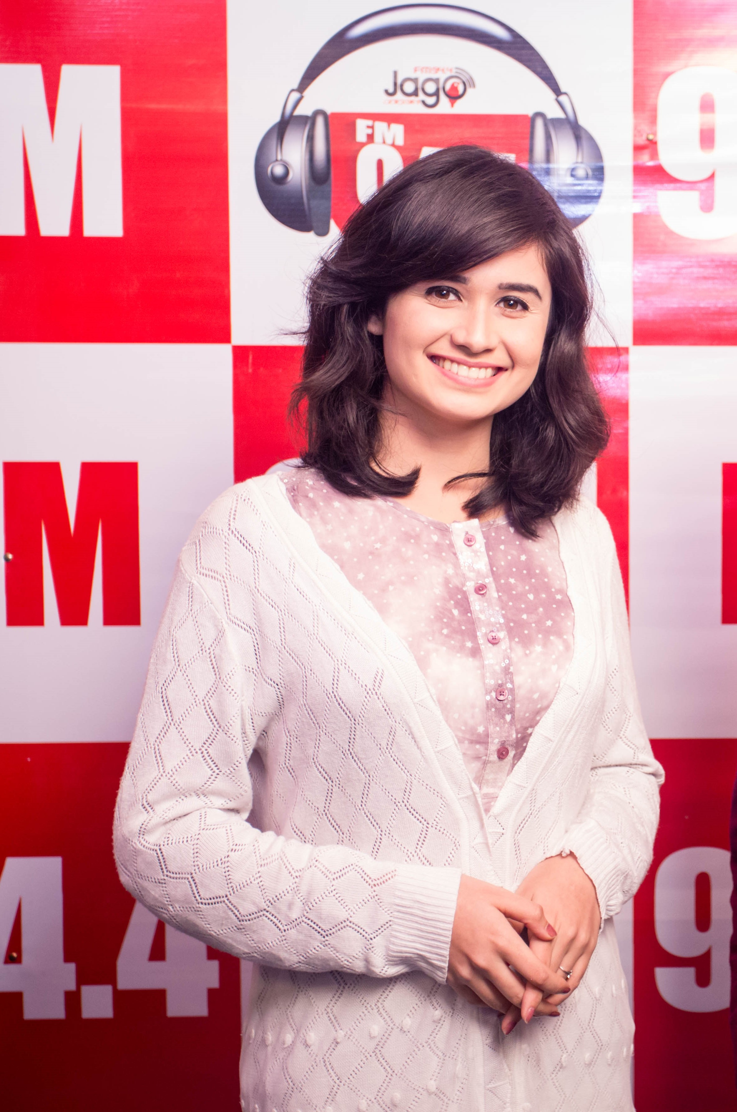 Jannatul Ferdous Oishee is a Bangladeshi model and beauty pageant titleholder who was crowned Miss World Bangladesh 2018